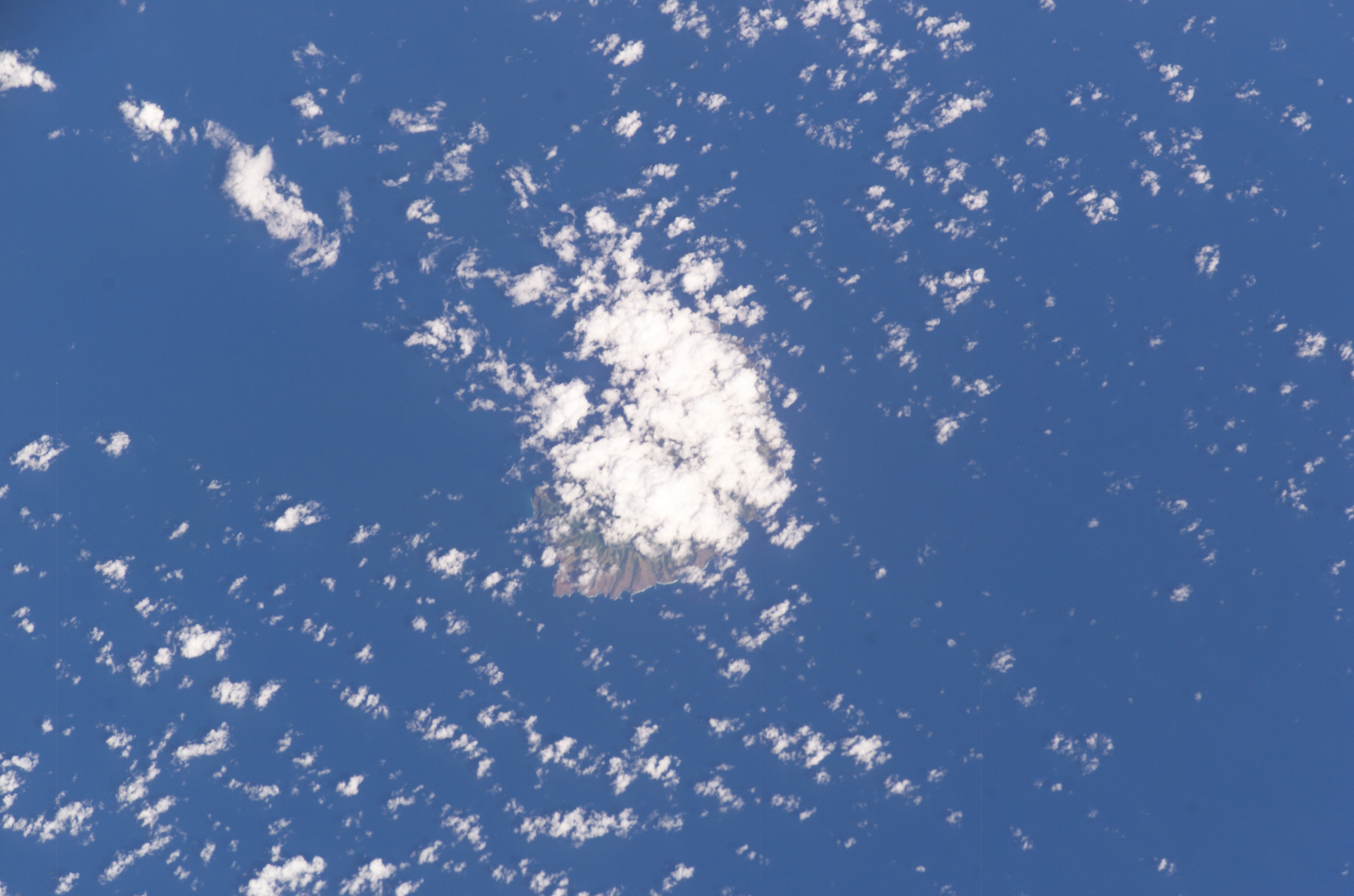 NASA astronaut image of Fatu Hiva, Marquesas Islands, French Polynesia